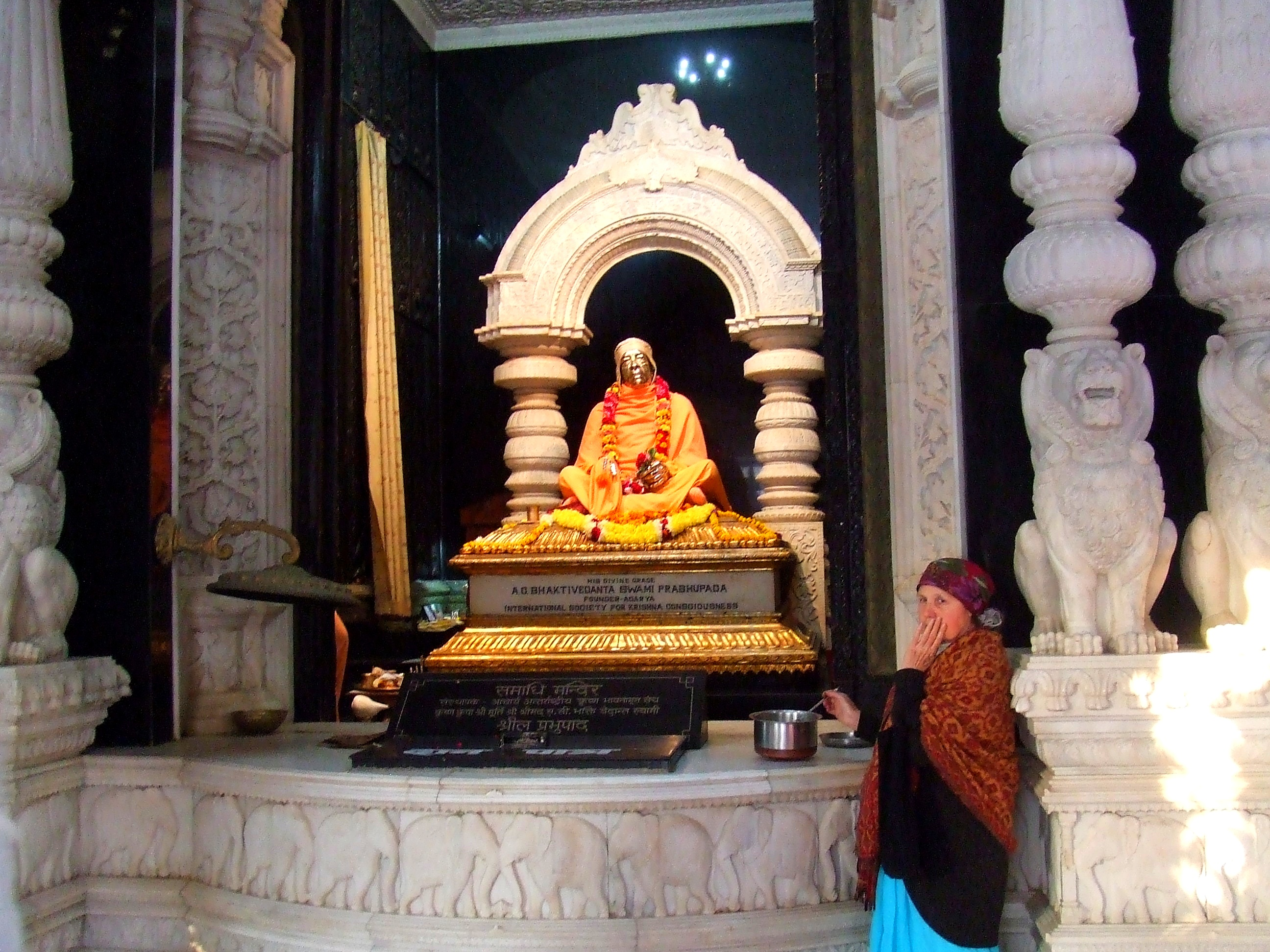 Samadhi Mandir, Srila Prabhupad, ISKCON, Vrindavan.